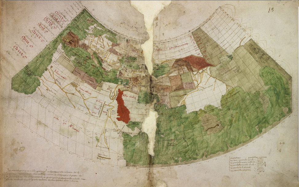 A Ptolemaic map of the world, from the tenth page of the ten-sheet atlas by Venetian cartographer Andrea Bianco, dated 1436. Held by the Biblioteca nazionale Marciana, Venice. This is one of the first Ptolemaic maps made since the recovery and Latin translation of Ptolemy's work in the early 15th C.